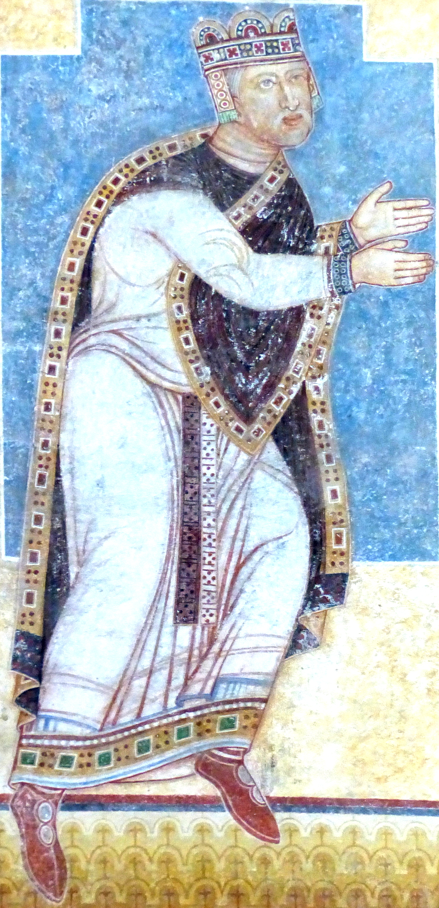 Regensburg-Prüfening ( Upper Palatinate ). Saint George abbey church ( 1130 ) - Romanesque frescos: Holy Roman Emperor Henry V,This is a photograph of an architectural monument.